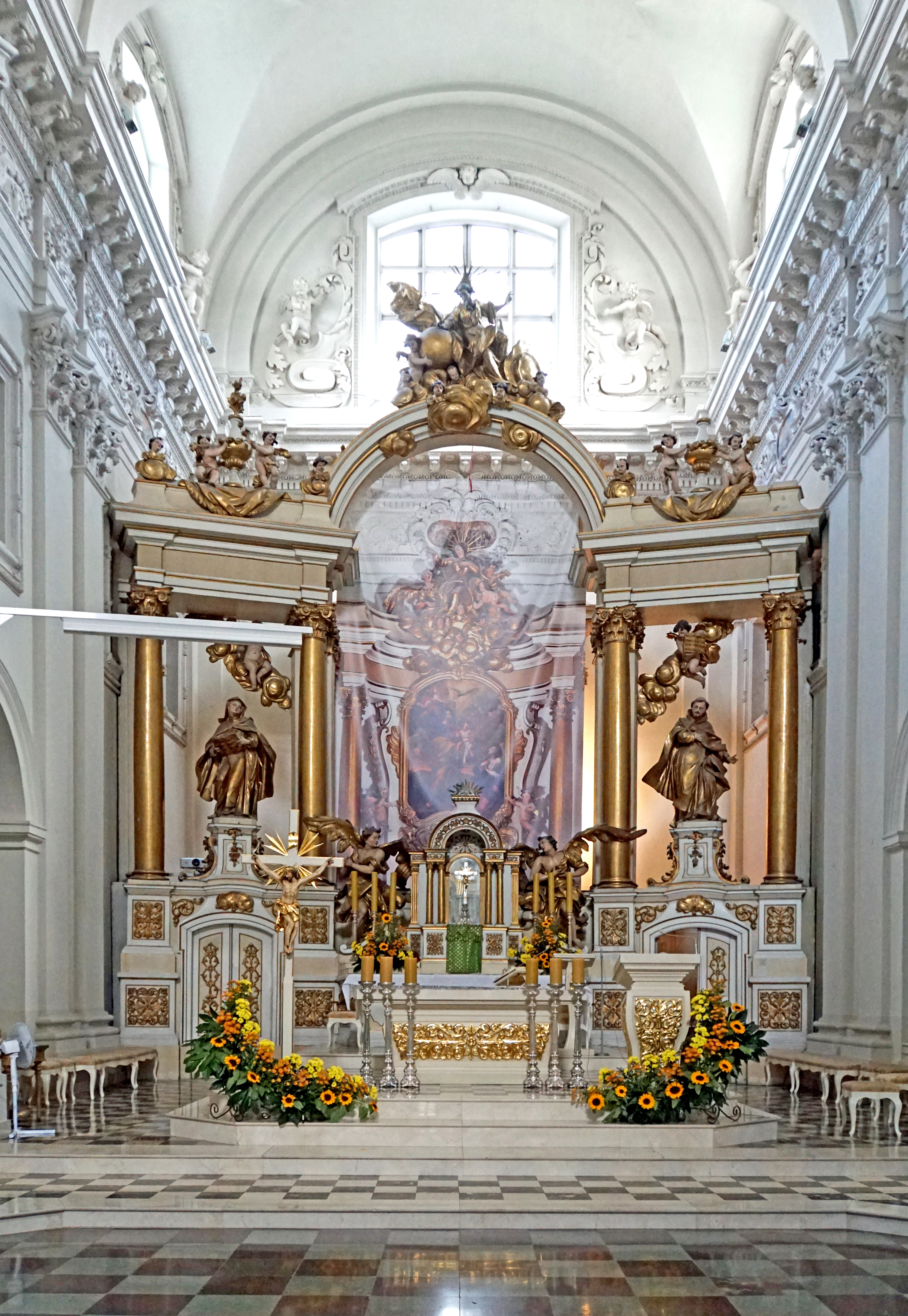 PLEASE, NO invitations or self promotions, THEY WILL BE DELETED. My photos are FREE to use, just give me credit and it would be nice if you let me know, thanks. Church of the Assumption of the Virgin Mary and of St.Joseph commonly known as the Carmelite Church, it is a Roman Catholic church. The Carmelite Church's façade was created in 1761-83. The church assumed its present appearance beginning in the 17th century and is best known for its twin belfries shaped like censers.